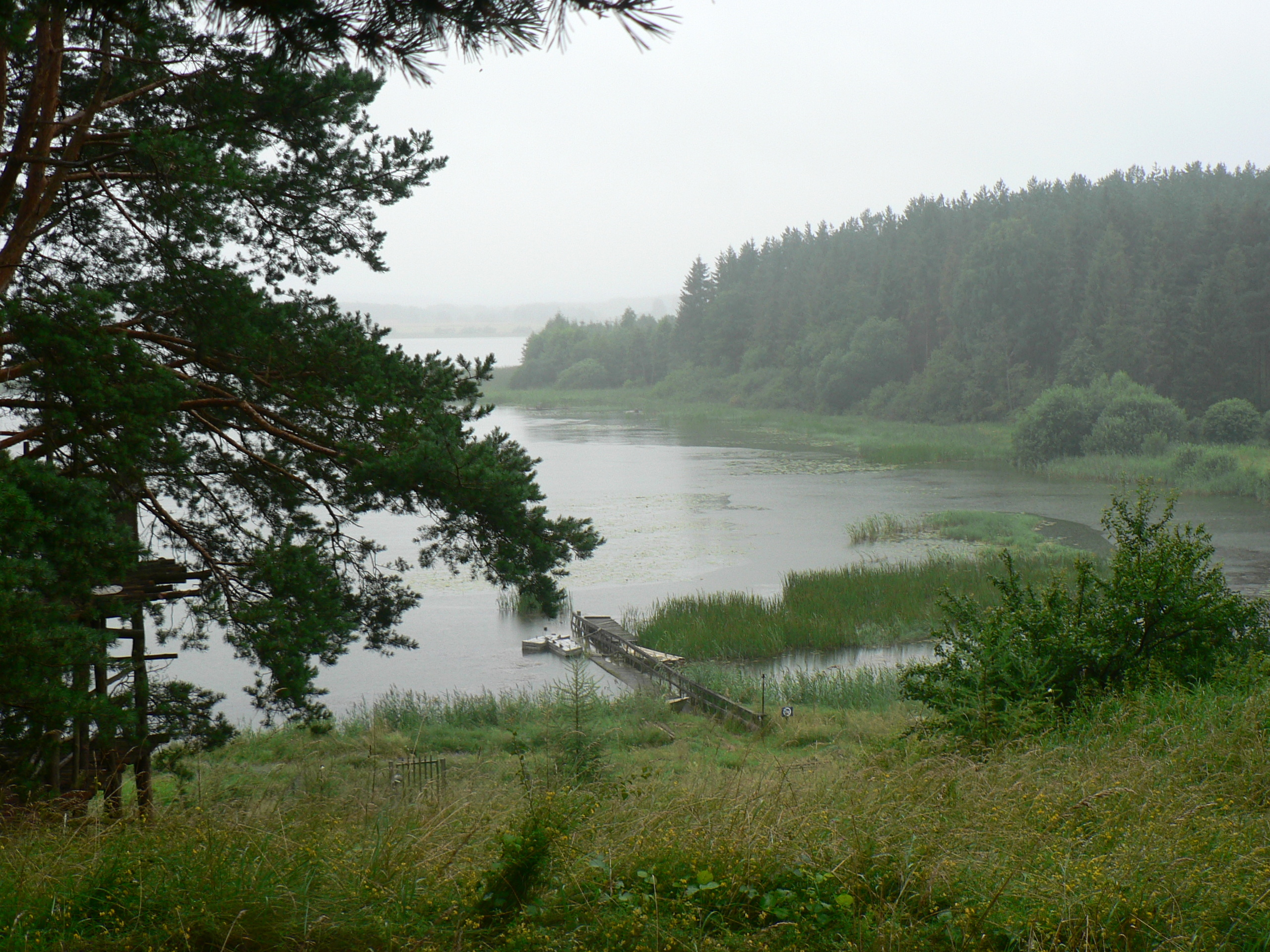 Lake Kiernoz Mały, southwards from Kurki